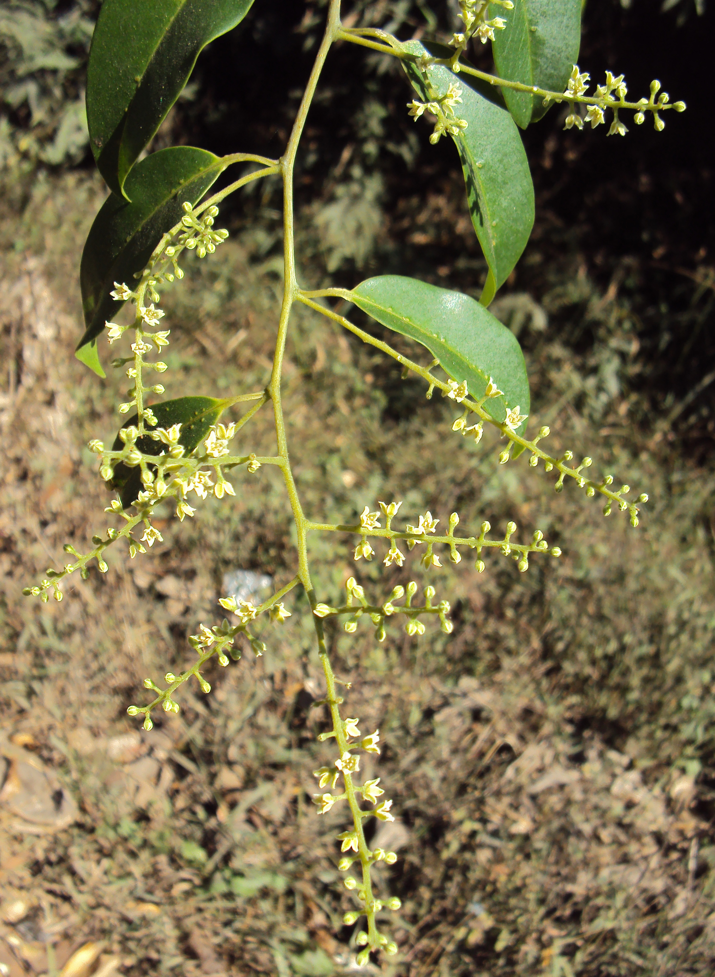 Embelia ribes